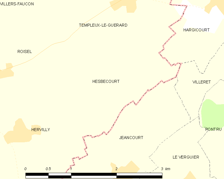 Map of French municipality Hesbécourt